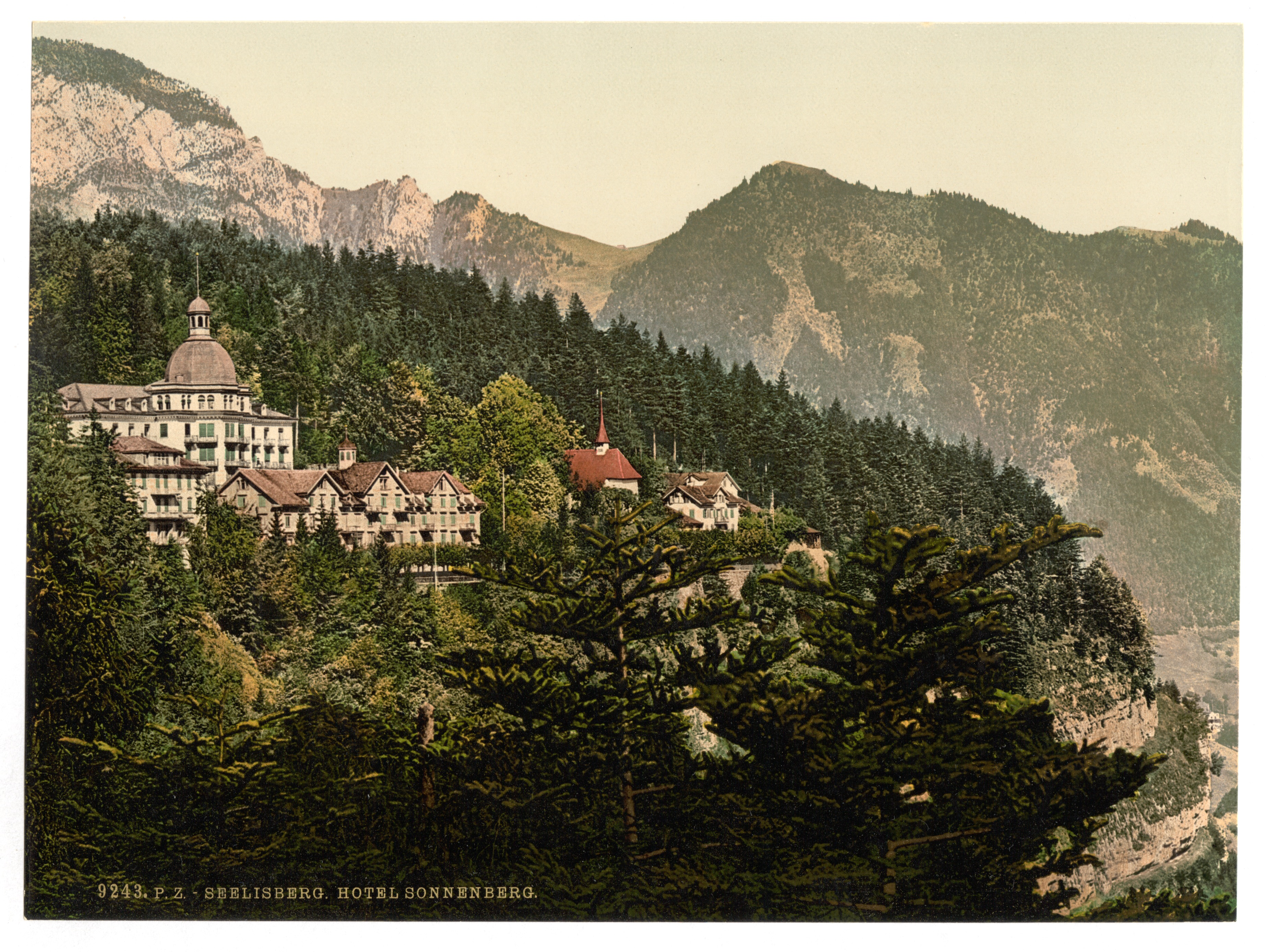 Forms part of: Views of Switzerland in the Photochrom print collection.; Title from the Detroit Publishing Co., Catalogue J-foreign section, Detroit, Mich. : Detroit Publishing Company, 1905.; Print no. "9243".